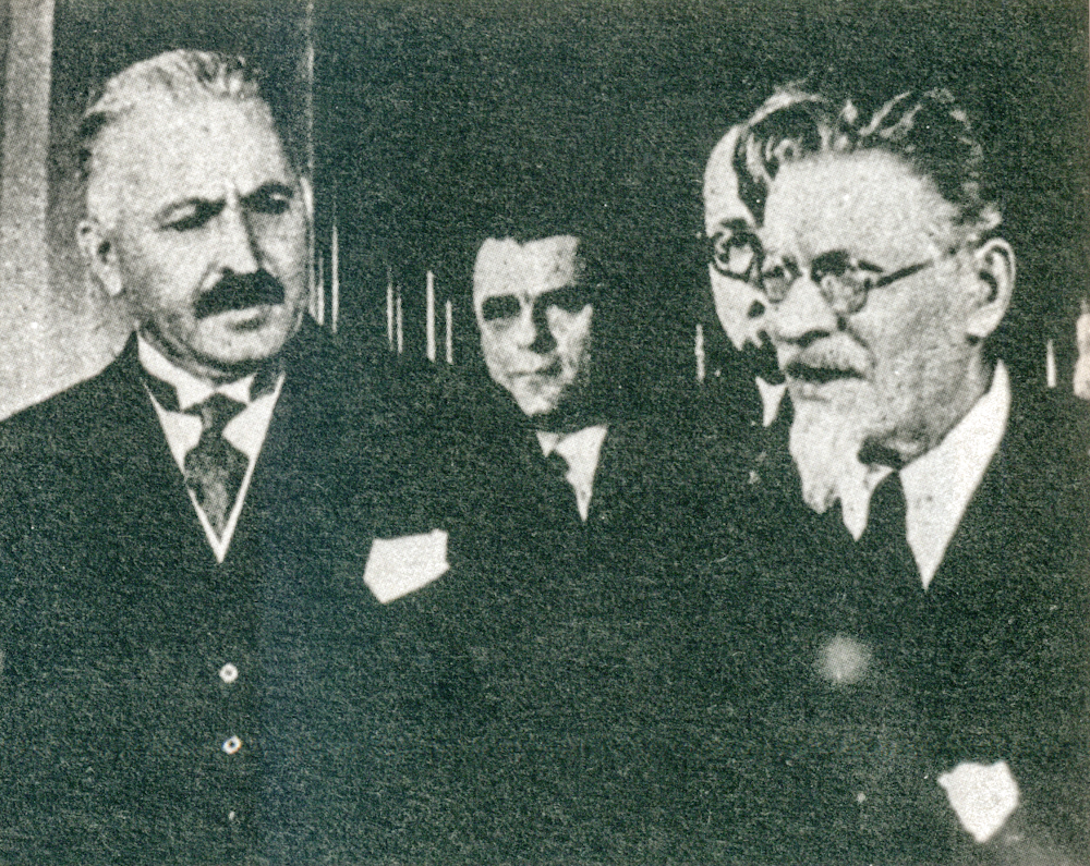 Mihály Jungerth-Arnóthy_and_Mikhail Kalininlabel QS:Len,"Mihály Jungerth-Arnóthy_and_Mikhail Kalinin" label QS:Lhu,"Jungerth-Arnóthy Mihály és Mihail Ivanovics Kalinin"